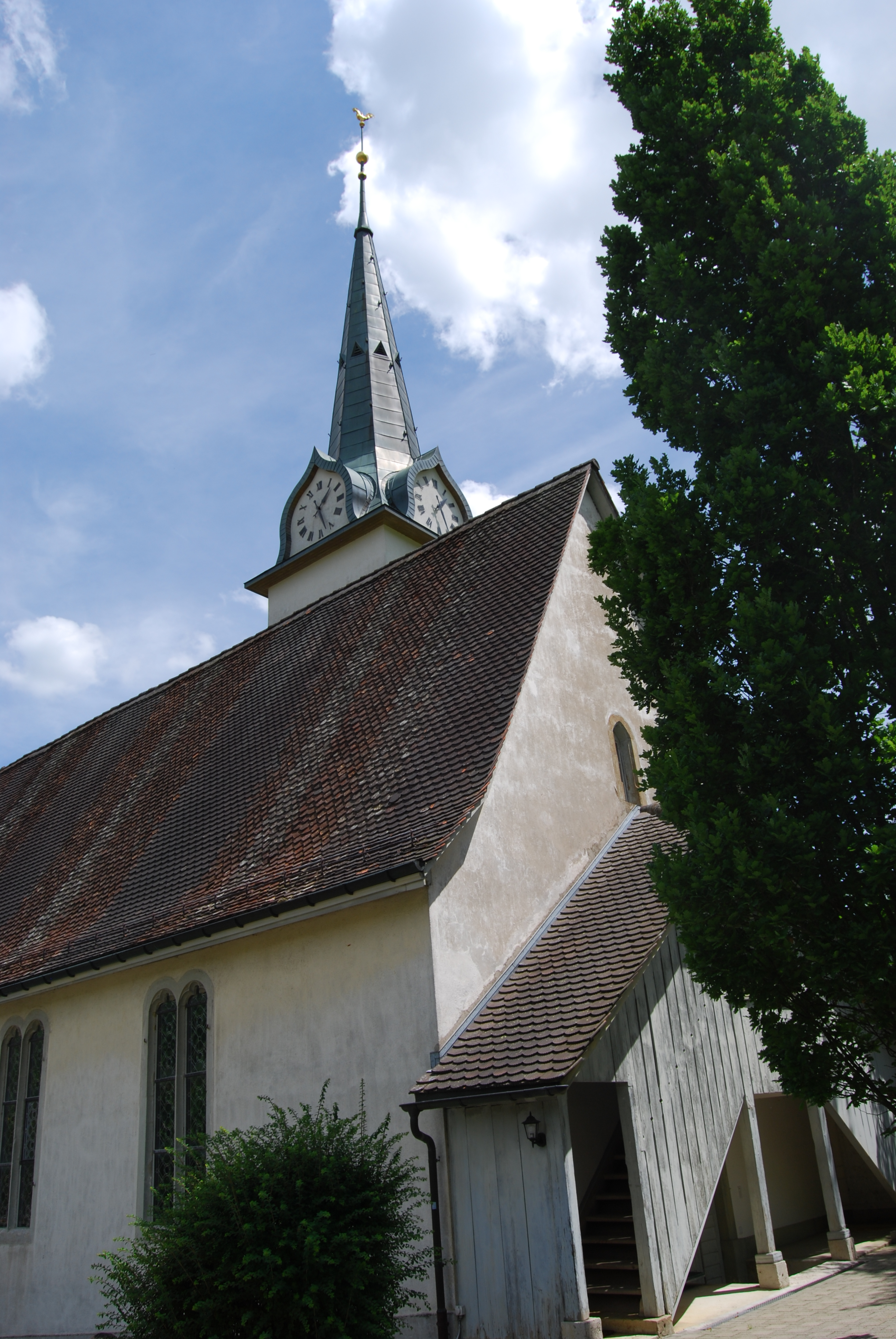 Protestant church of Langenbruck, canton of Basel-Country, Switzerland